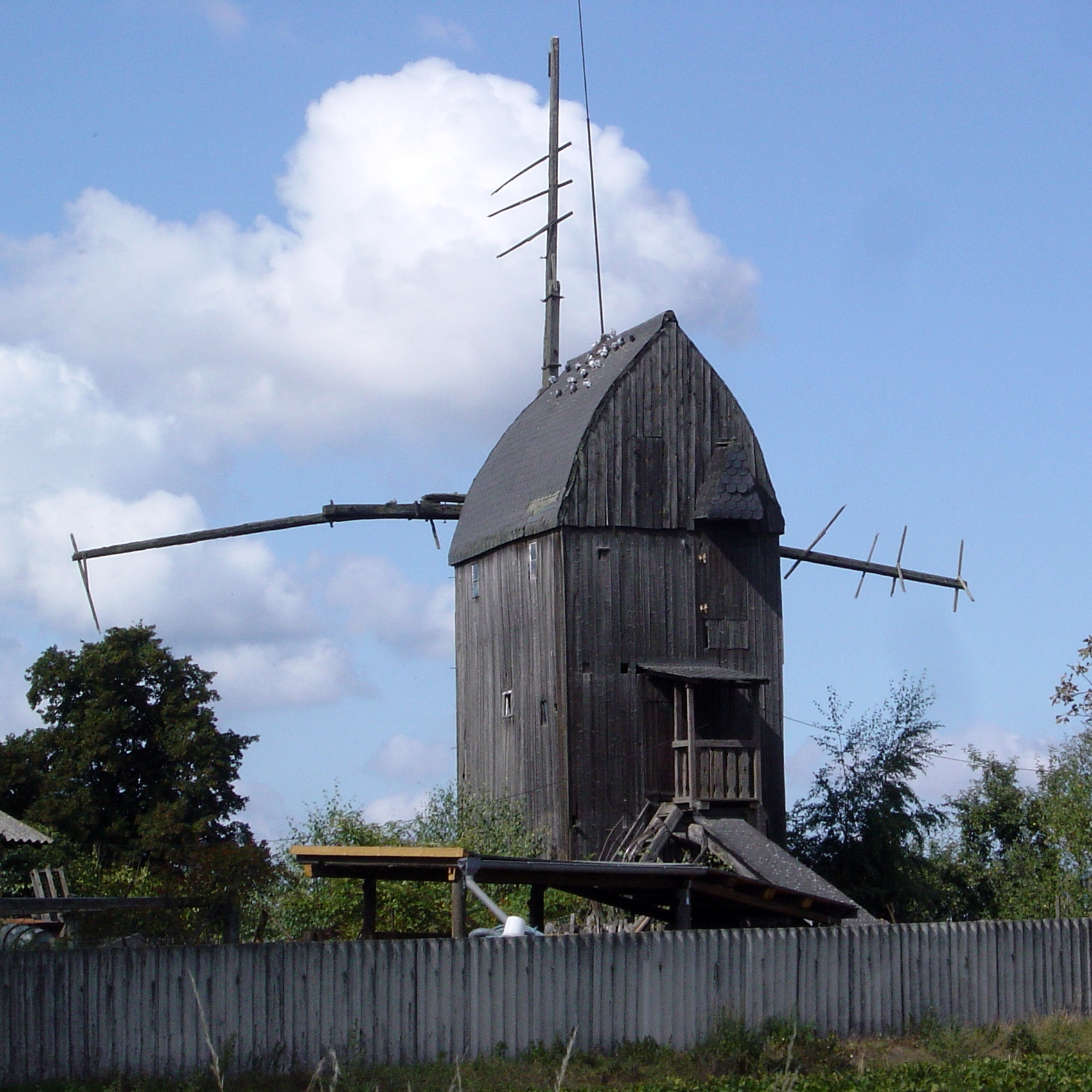 Windmill in Uhrsleben, Germany